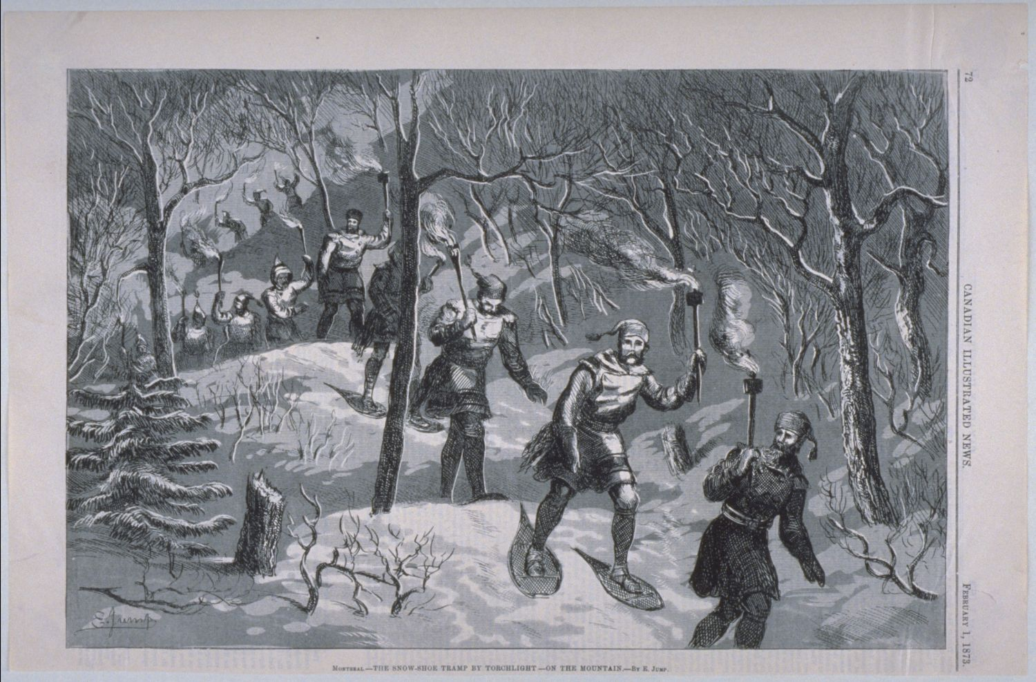 Illustration captioned "MONTREAL - THE SNOW SHOE TRAMP BY TORCHLIGHT - ON THE MOUNTAIN."